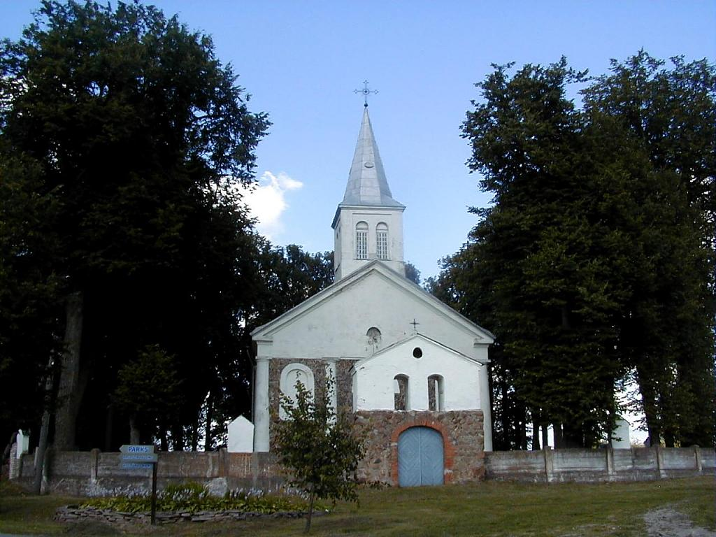 Ozolmuiža Saint Peter and Saint Paul Roman Catholic ChurchLatviešu: Ozolmuižas Svētā Pētera un Svētā Pāvila Romas katoļu baznīca